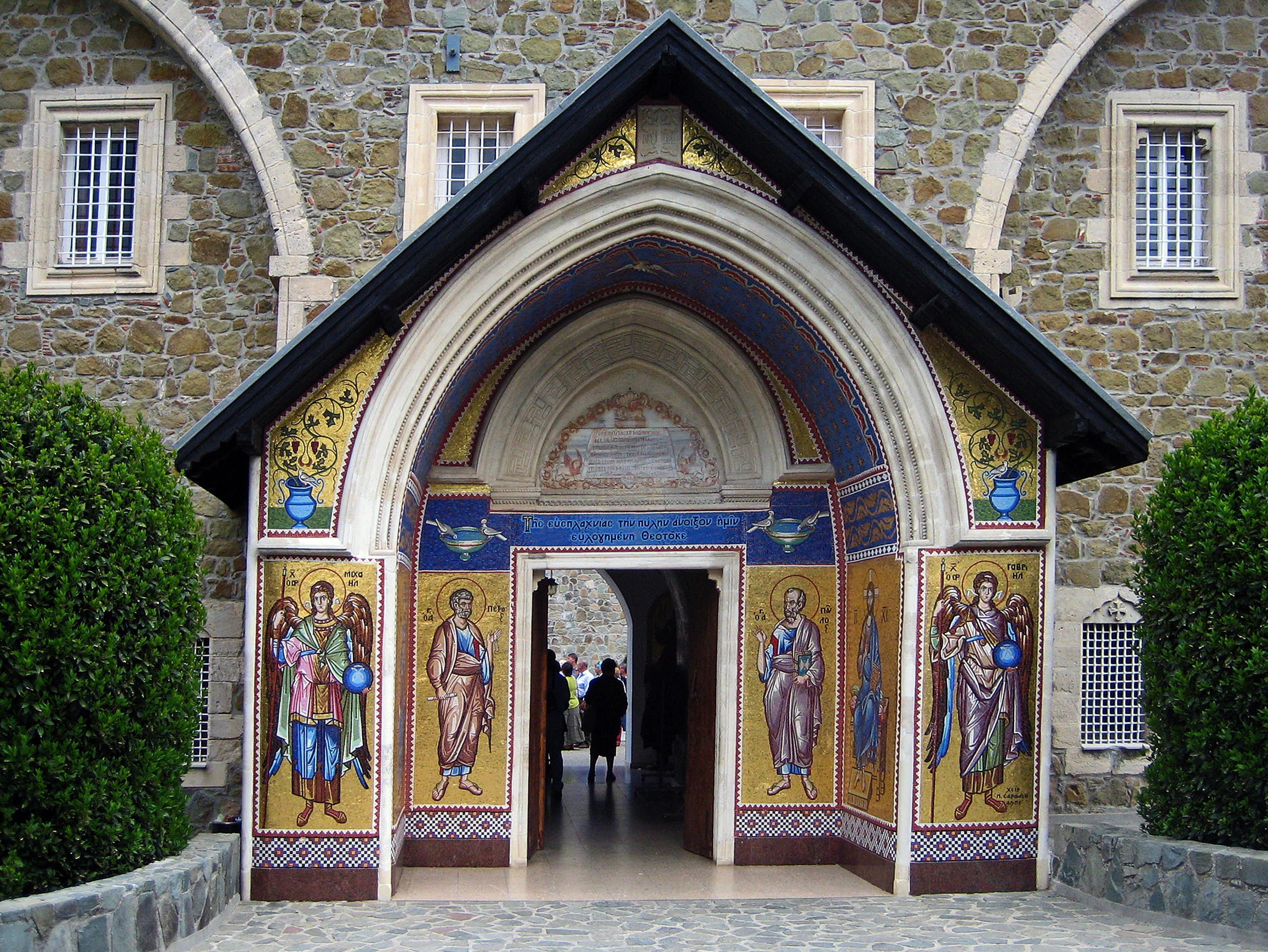 Kykkos-Monastary-Entrance in the Troodos Mountains / Cyprus